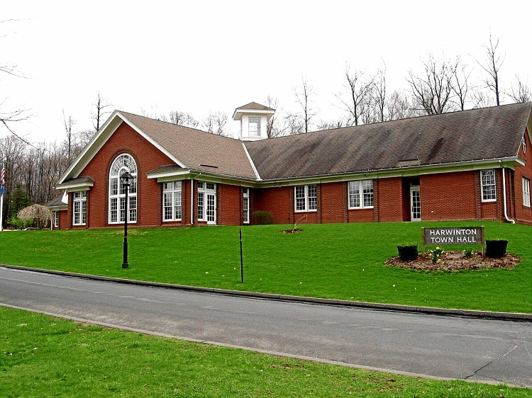 Town Hall, Harwinton, Connecticut. Part of the Litchfield-South Roads Historic District.